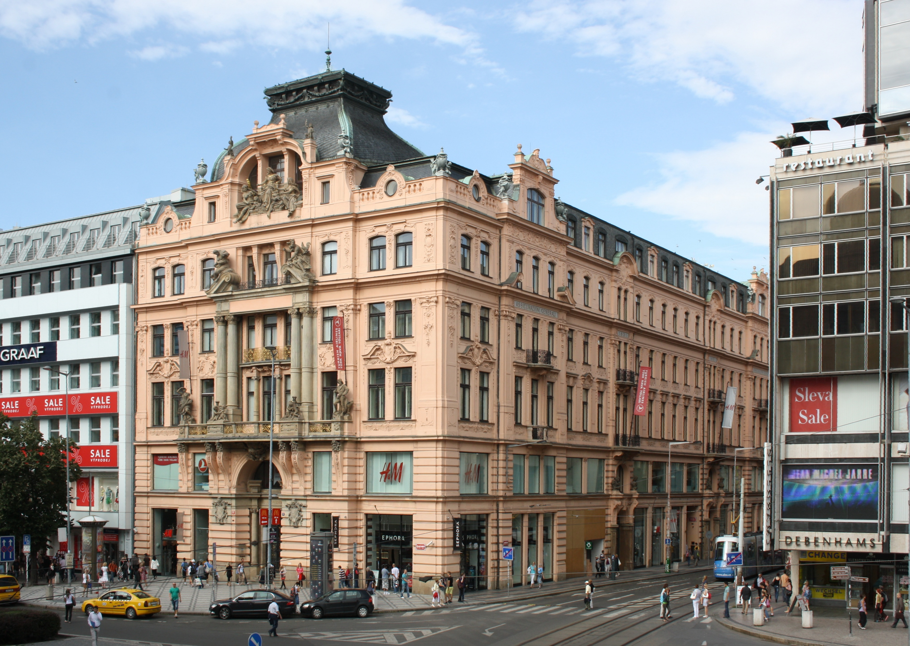 Friedrich Ohmann: Palace of Assicurazioni Generali, Prague, Václavské náměstí 19